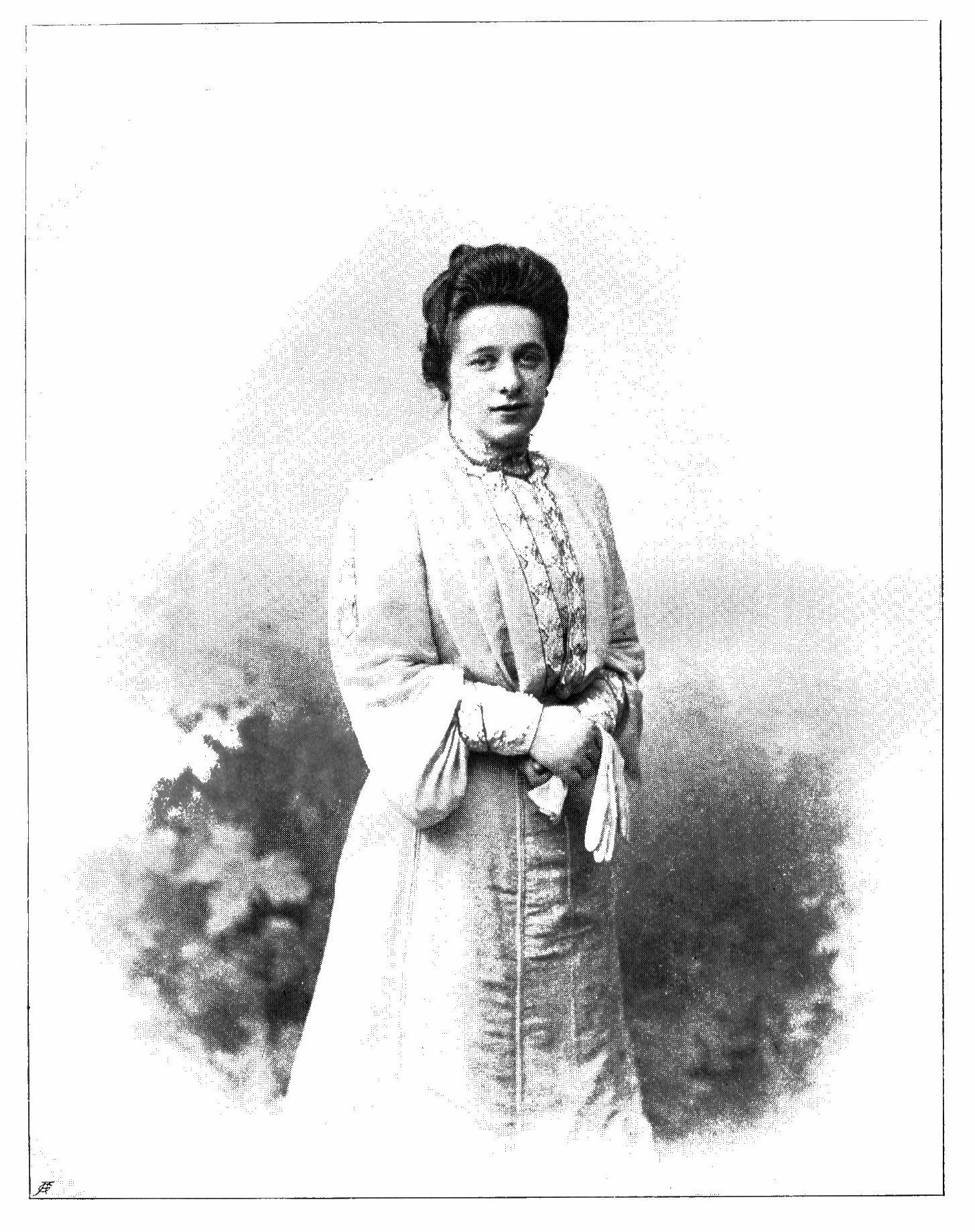 Amalia Parolin, niece of pope Pius X in Riese